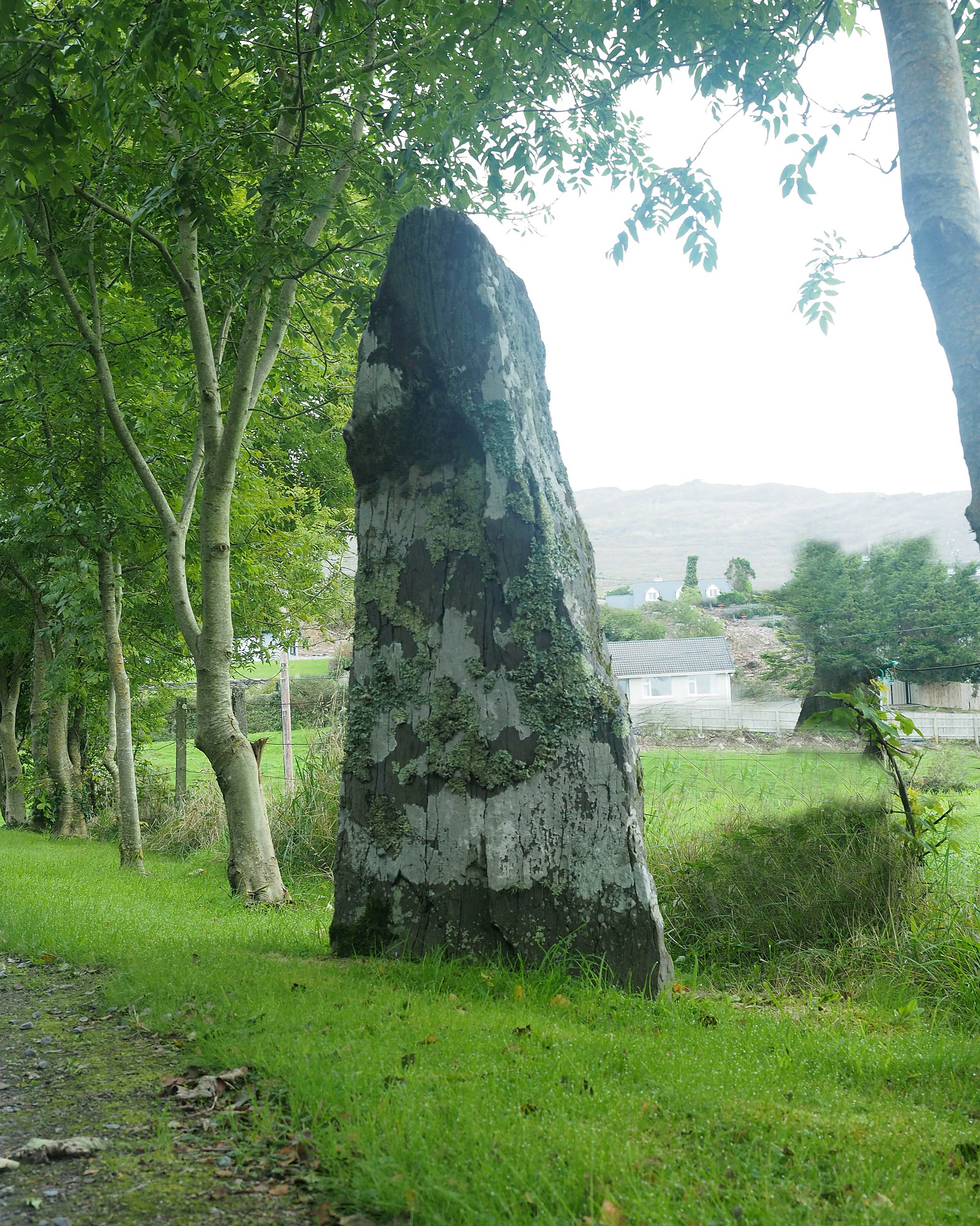 Cooradarrigan Stone near schull